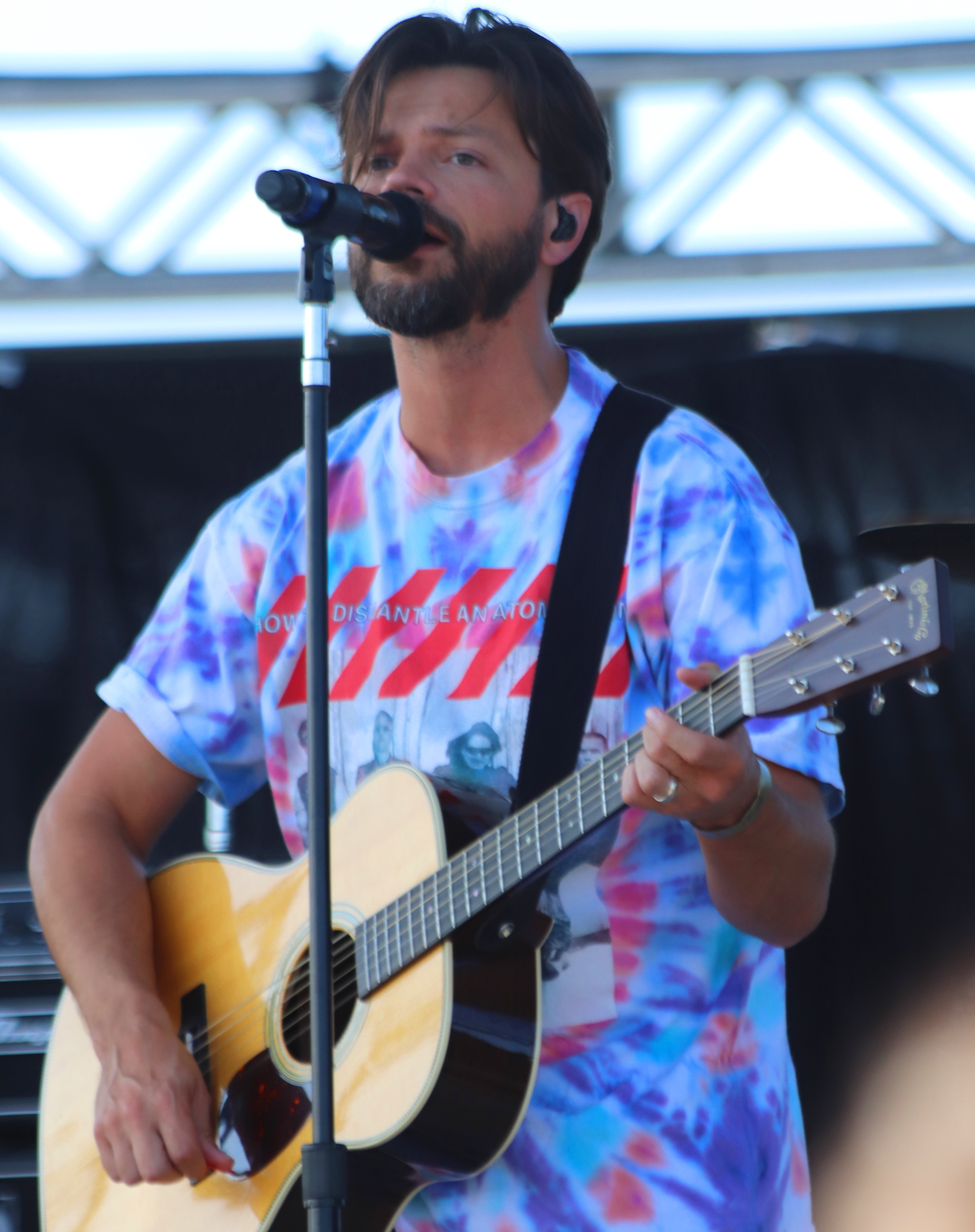 Brett Younker performing with Passion Music at Lifest.